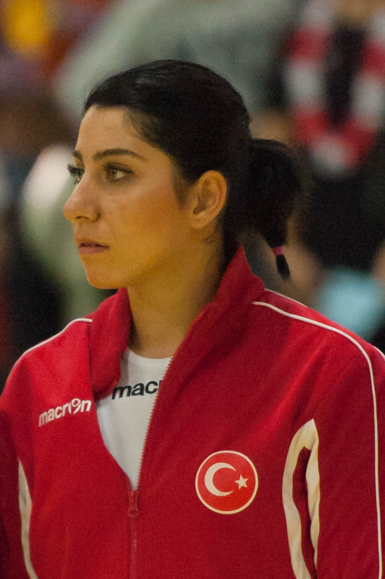 2015 World Women's Handball Championship Qualification 2014-12-06: Gülsüm Güleçyüz